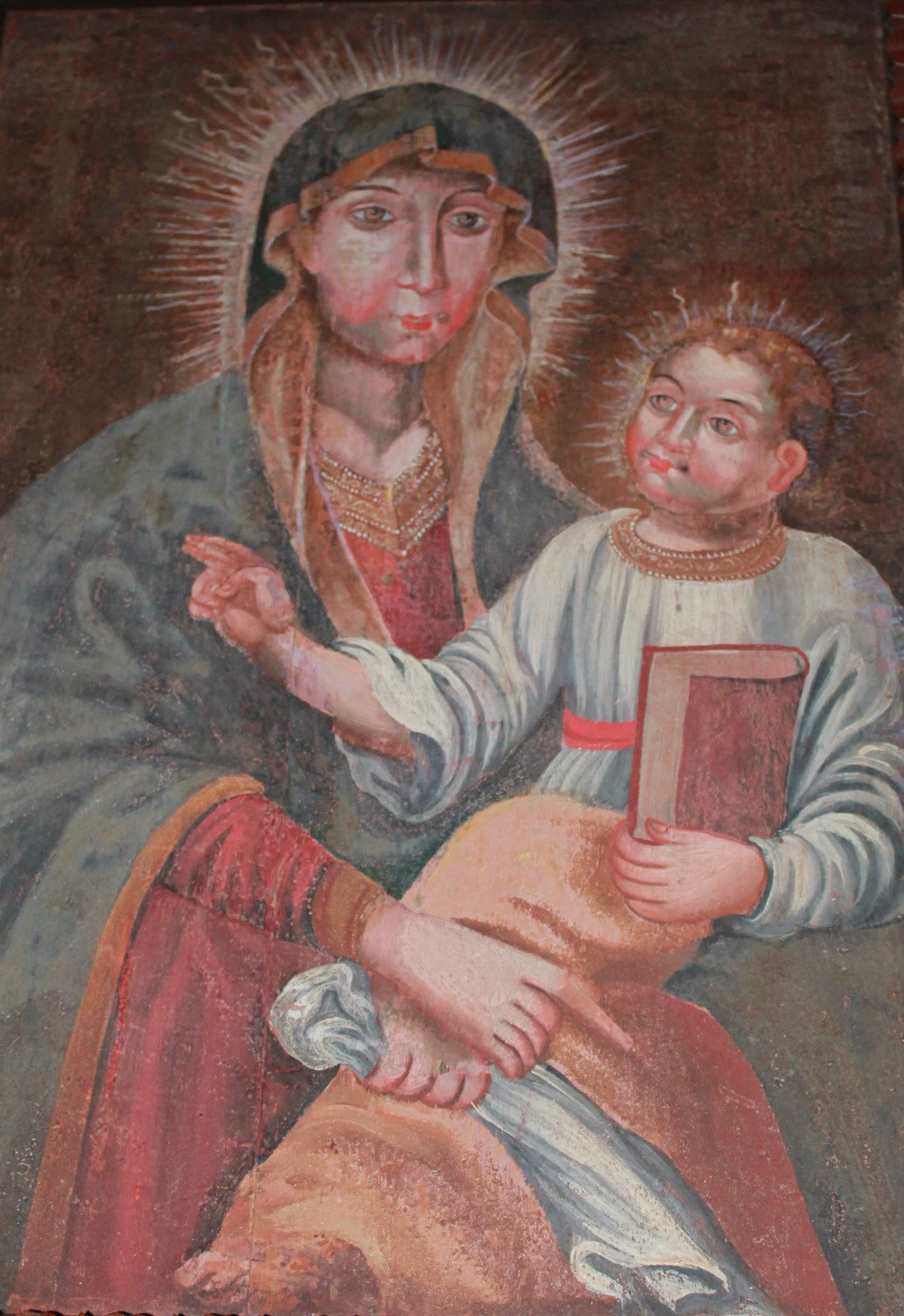 The icon of the Holy Virgin og Berdychiv. 17-18th cc. The Museum of Ukrainian Home Icons, Radomysl Castle